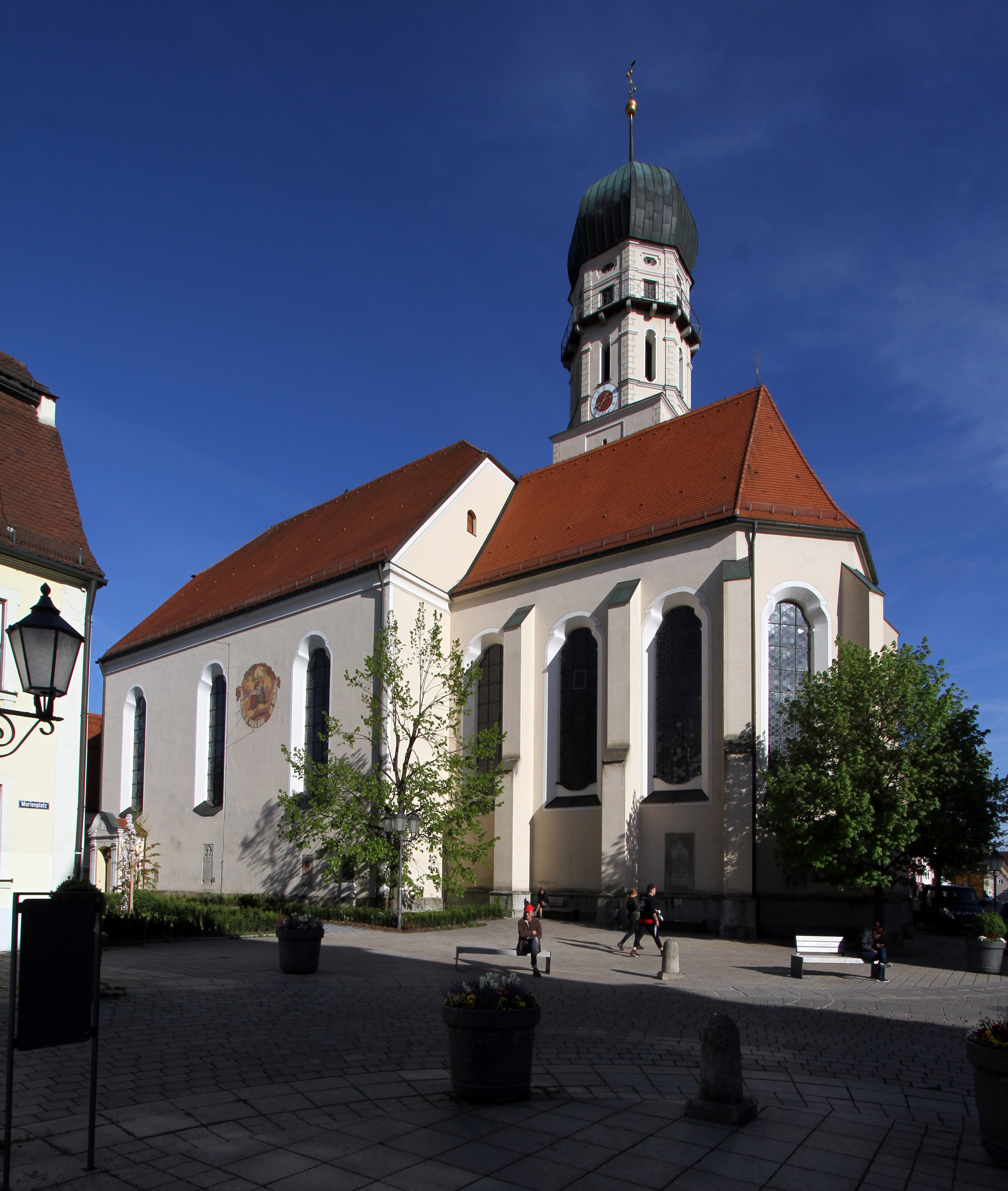 Church of Mariä Himmelfahrt (Schongau)